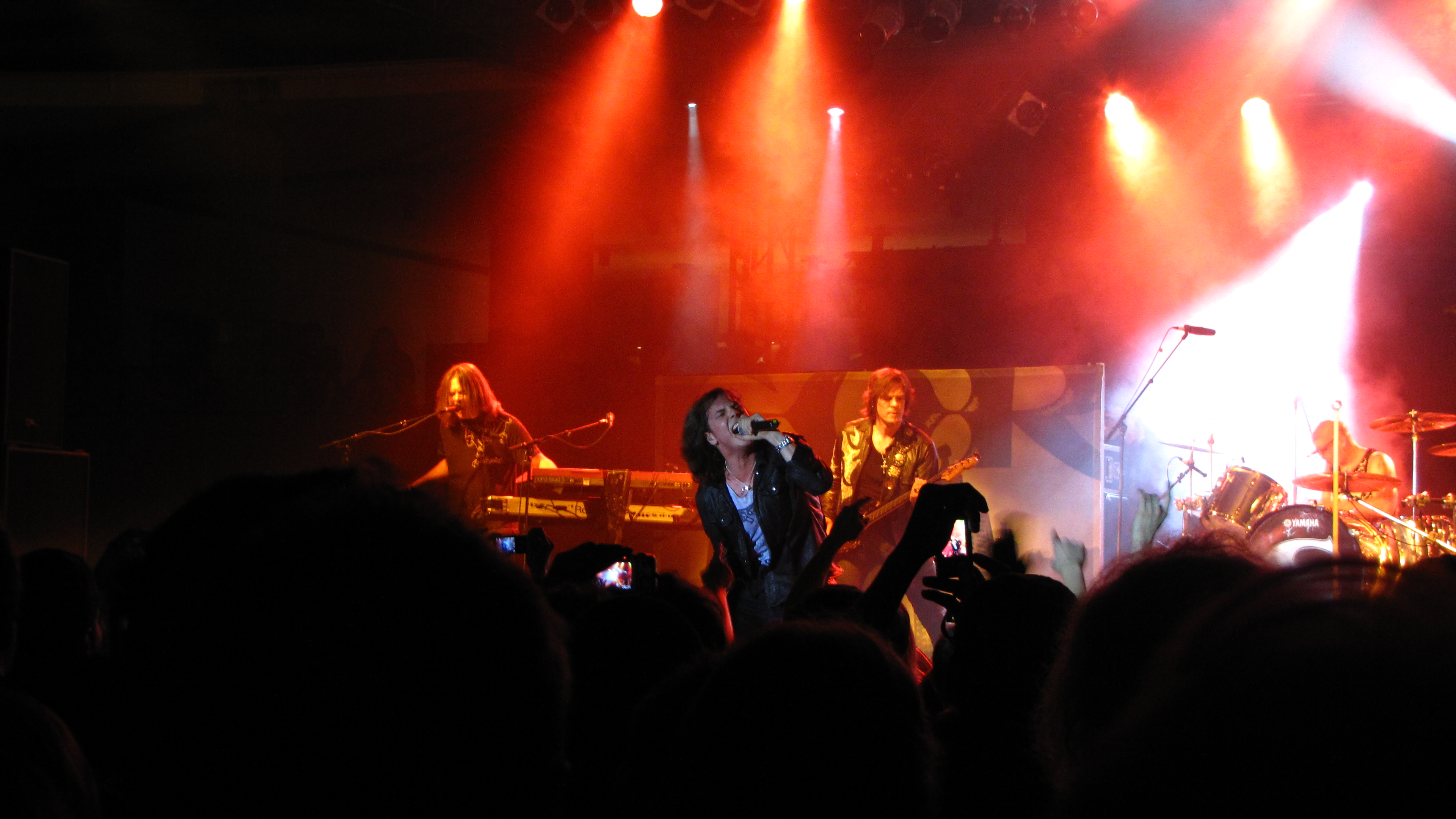 Europe performing in Trnava, Slovakia 2010.